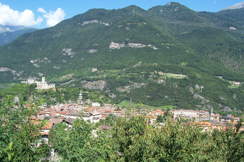 Breno, Val Camonica